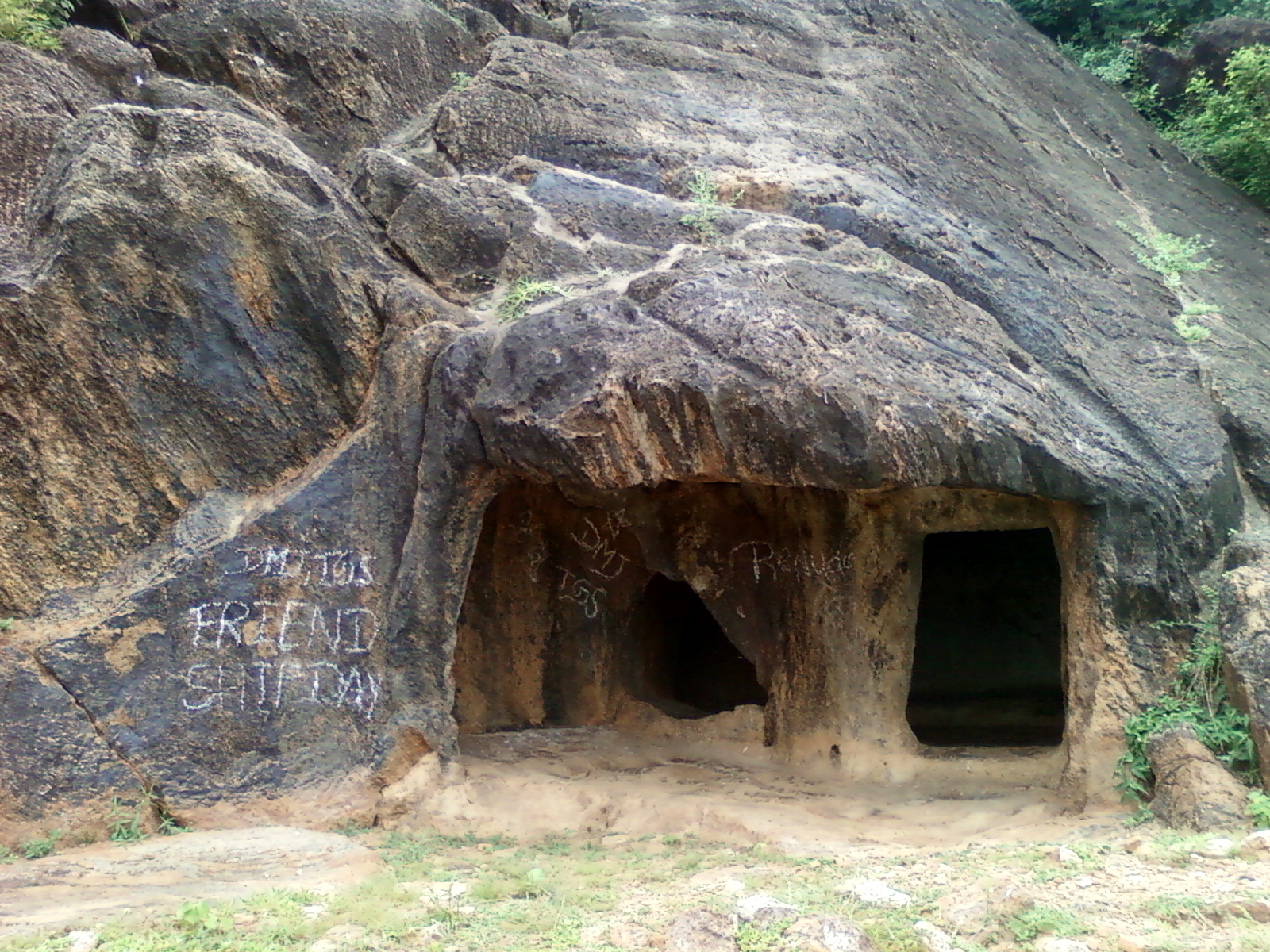 Buddhist rock cut caves at Kotturu Dhanadibbalu of Rambilli mandal near Elamanchili of Visakhapatnam district.